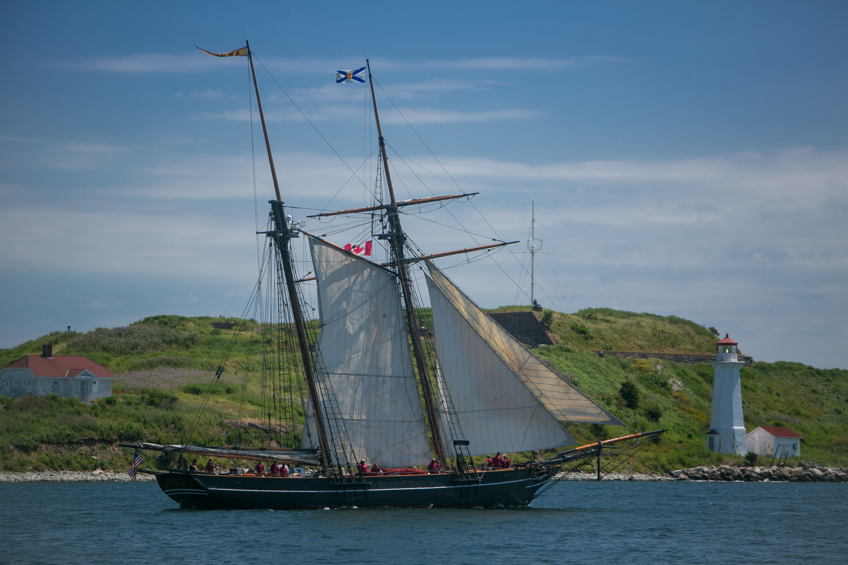 Amistad at Halifax Harbour, at the Tall Ships Challenge (Atlantic Coast 2012)